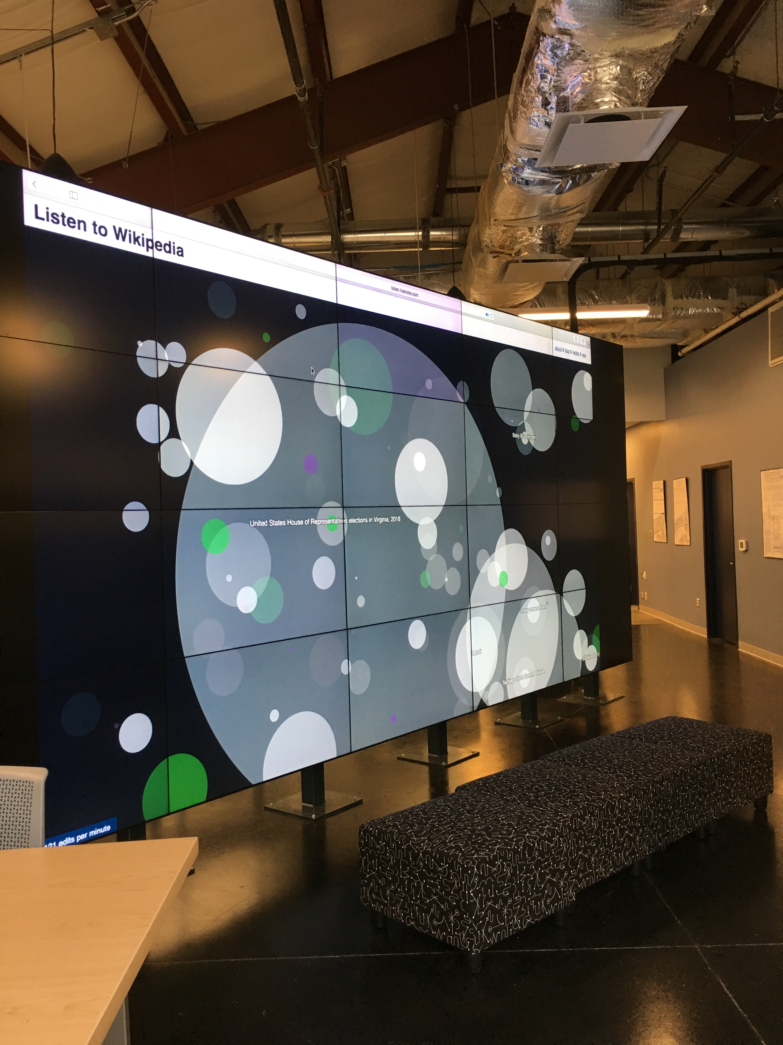 Listen to Wikipedia is a visualization project which presents the live feed of Wikipedia edits as shapes and sounds. The photograph shows the display presenting Listen to Wikipedia in the Data Science Institute at the University of Virginia.